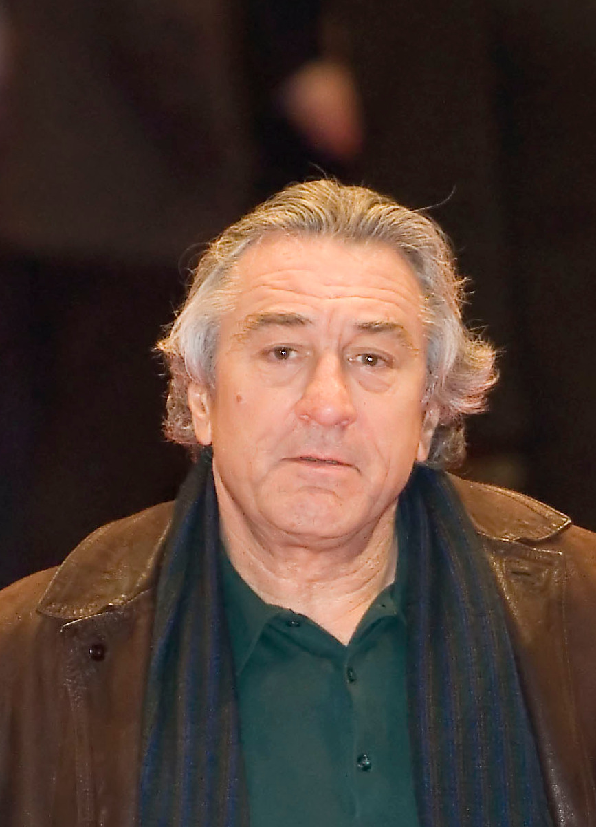 Matt Damon, Robert De Niro, Martina Gedeck, and Timothy Hutton at the premiere of The Good Shepherd in Berlinalepalast, Postdamer Platz, Marlene-Dietrich-Platz.